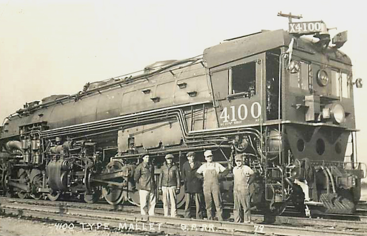 Postcard photo of Southern Pacific locomotive 4100 and crew.